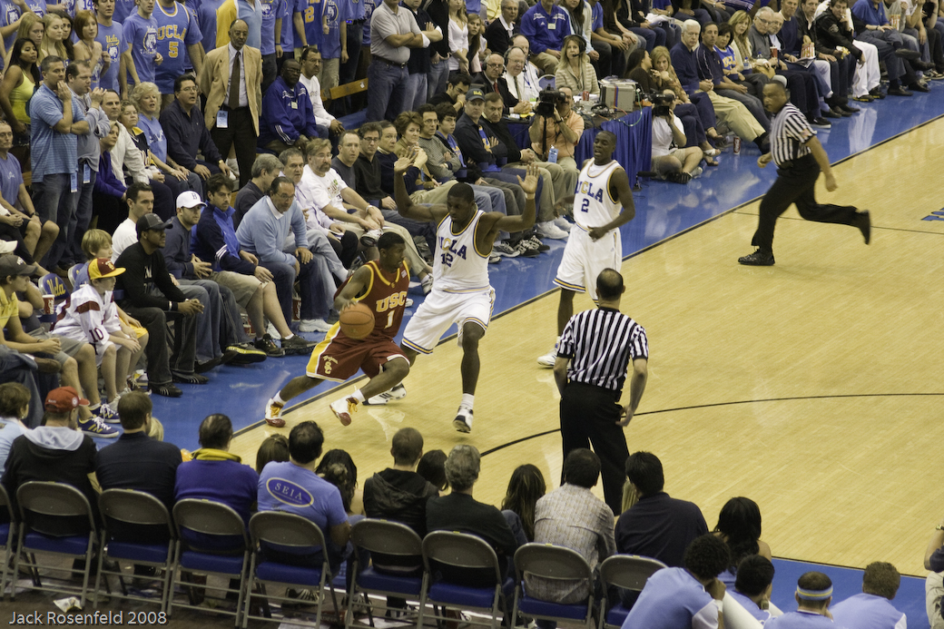 The so cal player is clearly out of bounds.